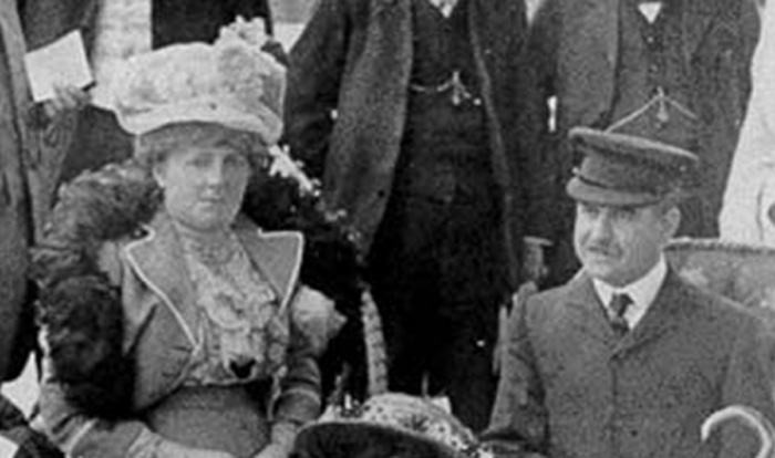 Governor and Lady Strickland circa 1915. Governor of New South Wales 1913-1917.